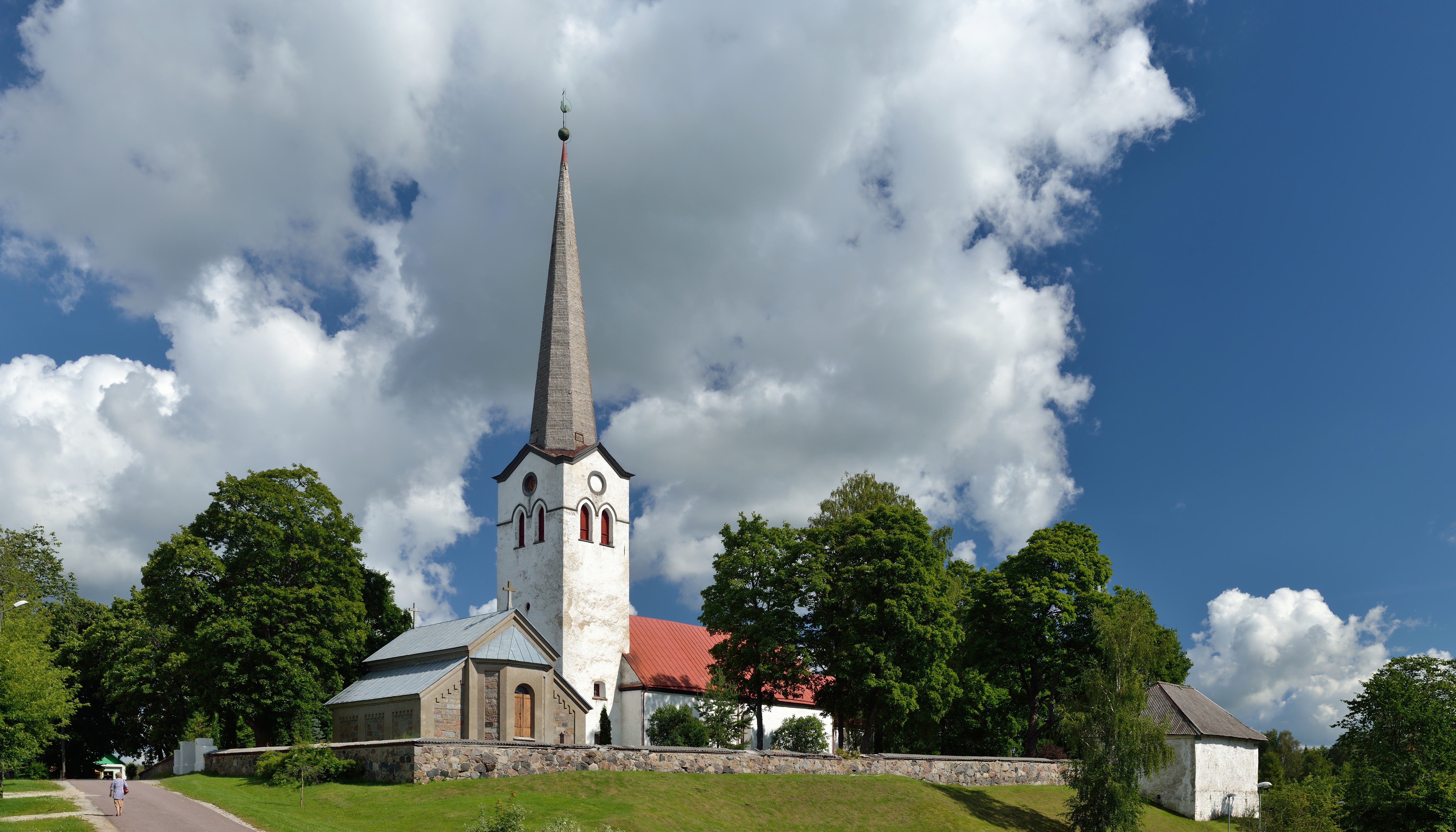 Kose church. First part was built in 1370s, western tower in 1430 and spire is from 1873.